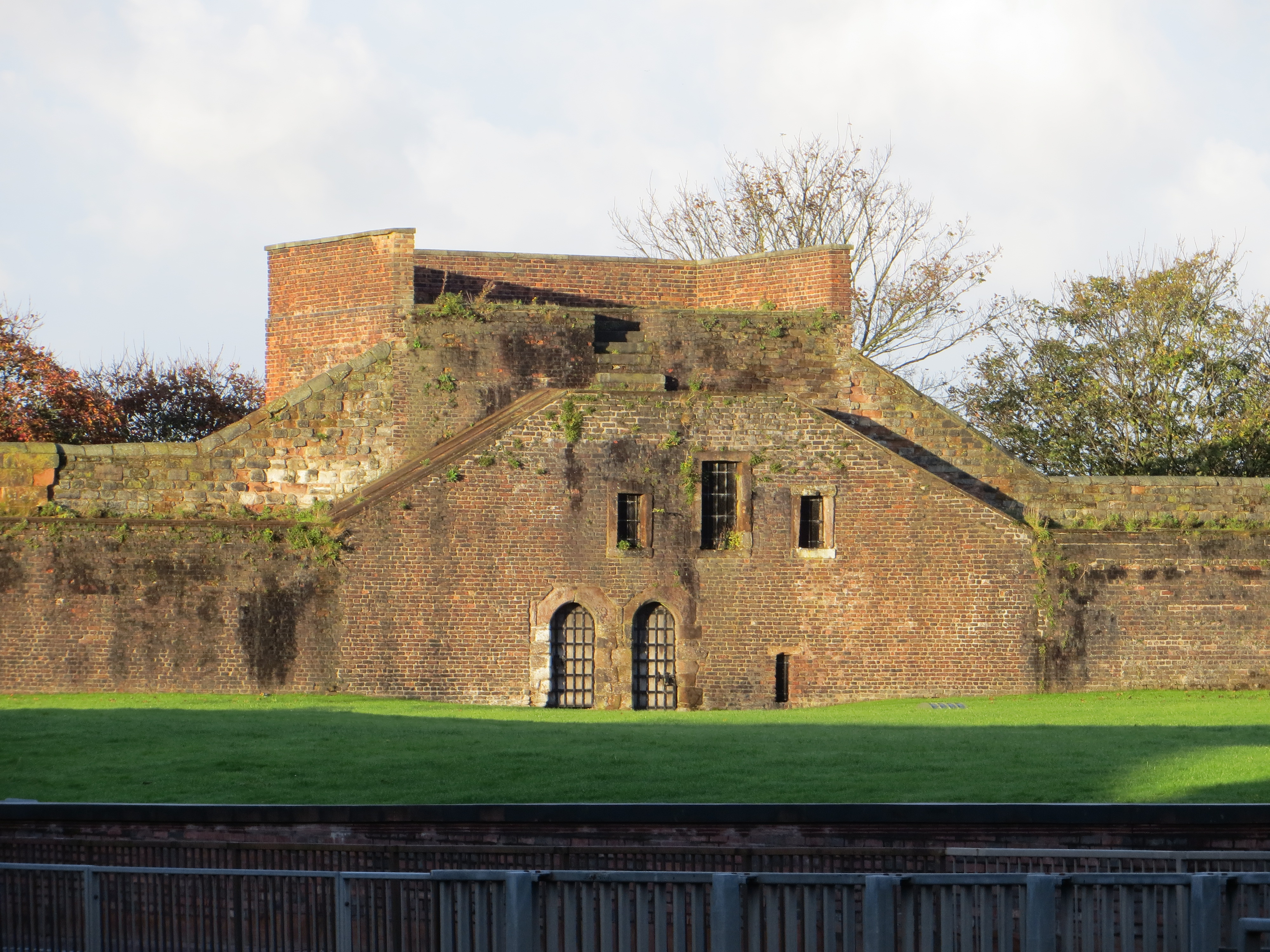 Tile Tower, also known as King Richard III tower, between Irish Gate and Castle. (Grade 1 Listed)